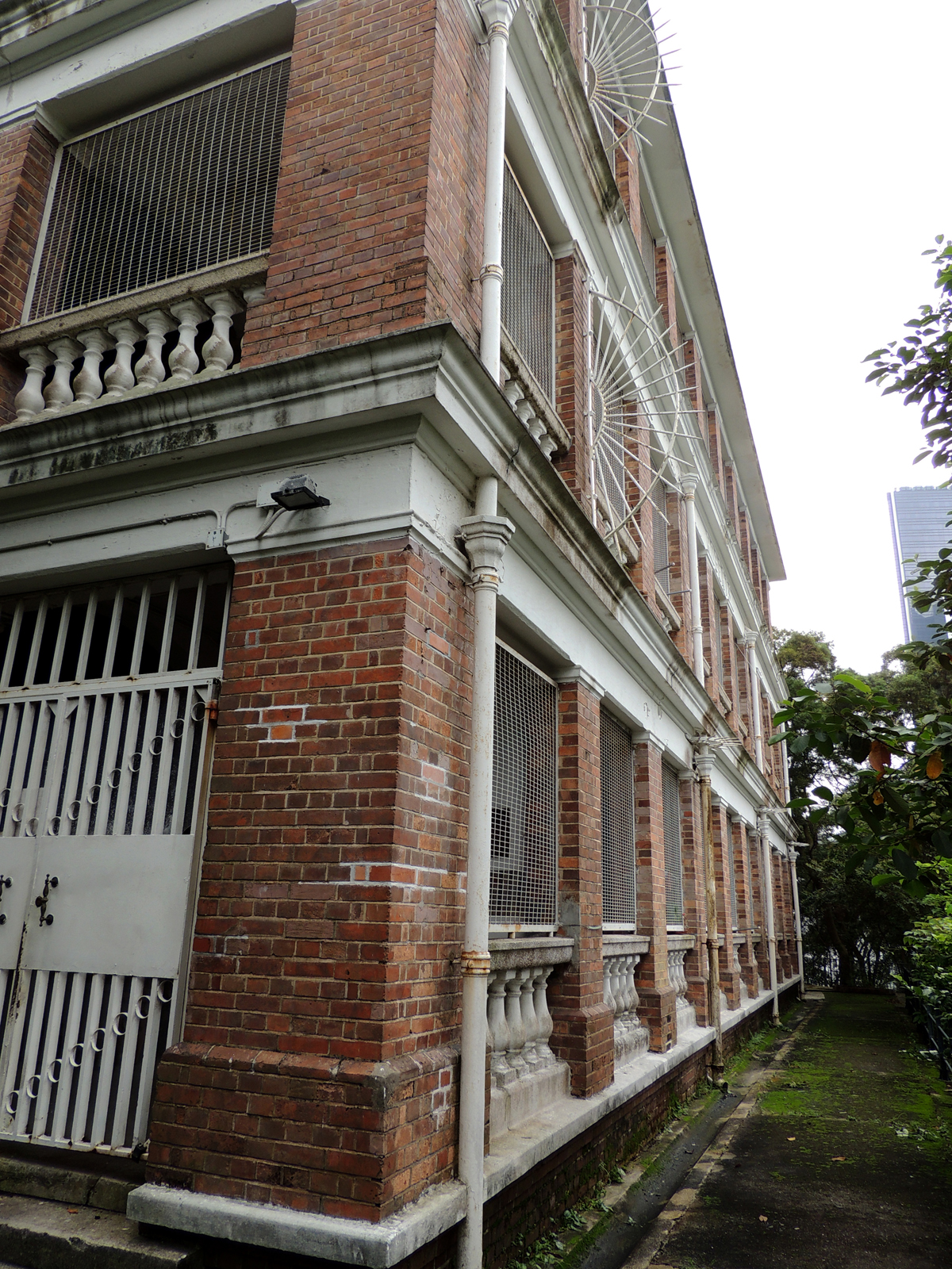 Old Victoria Barracks, Roberts Block